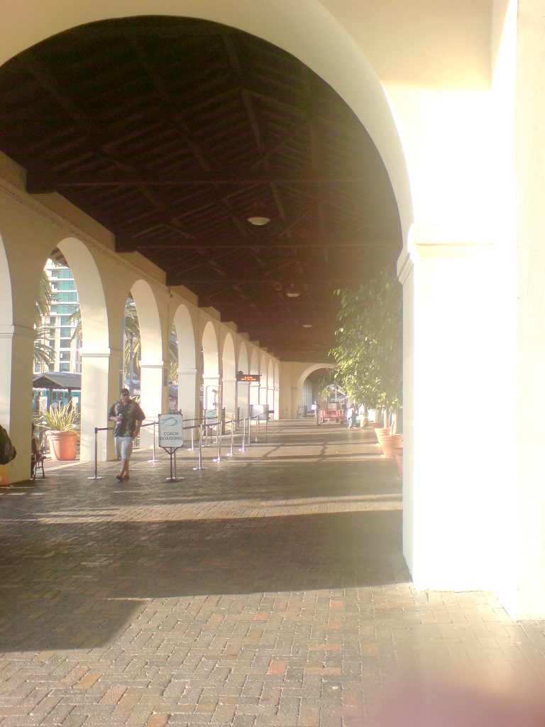 Entrance to the railway platform.